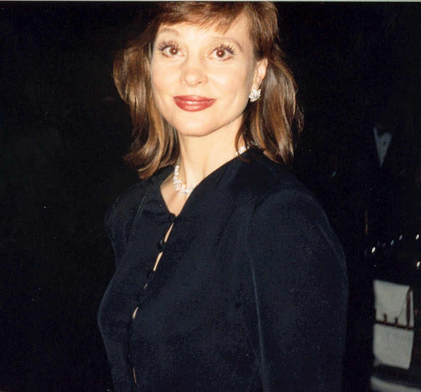 Leigh Taylor-Young at the Governor's Ball after the Emmy telecast 9/11/94